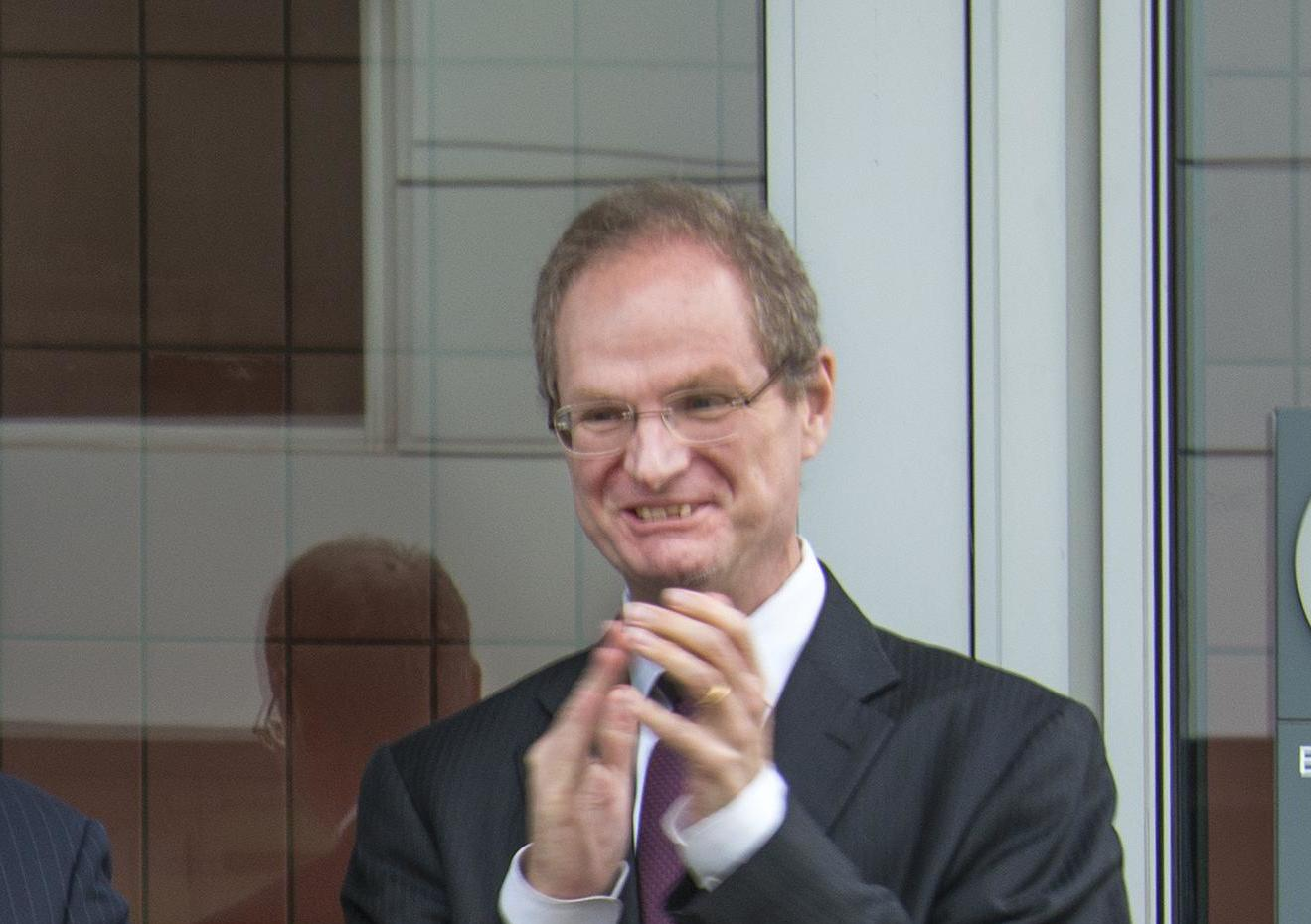 DURING A VISIT TO LAWRENCE BERKELEY NATIONAL LABORATORY, ENERGY SECRETARY ERNEST MONIZ WITH BERKELEY MAYOR TOM BATES AND LAB DIRECTOR PAUL ALIVISATOS CUT THE RIBBON TO THE GENERAL PURPOSE LABORATORY (GPL). For more information or additional images, please contact 202-586-5251.